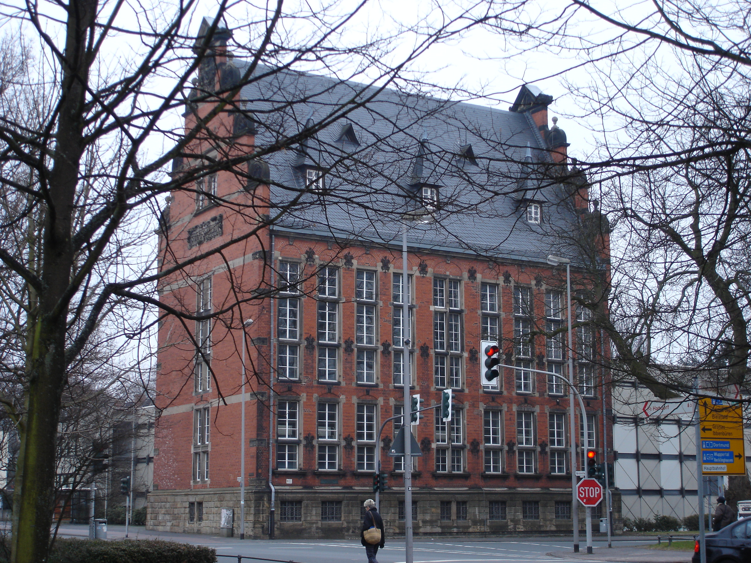 West side of the warehouse of the state archive of the city of Münster, Westphalia, Germany